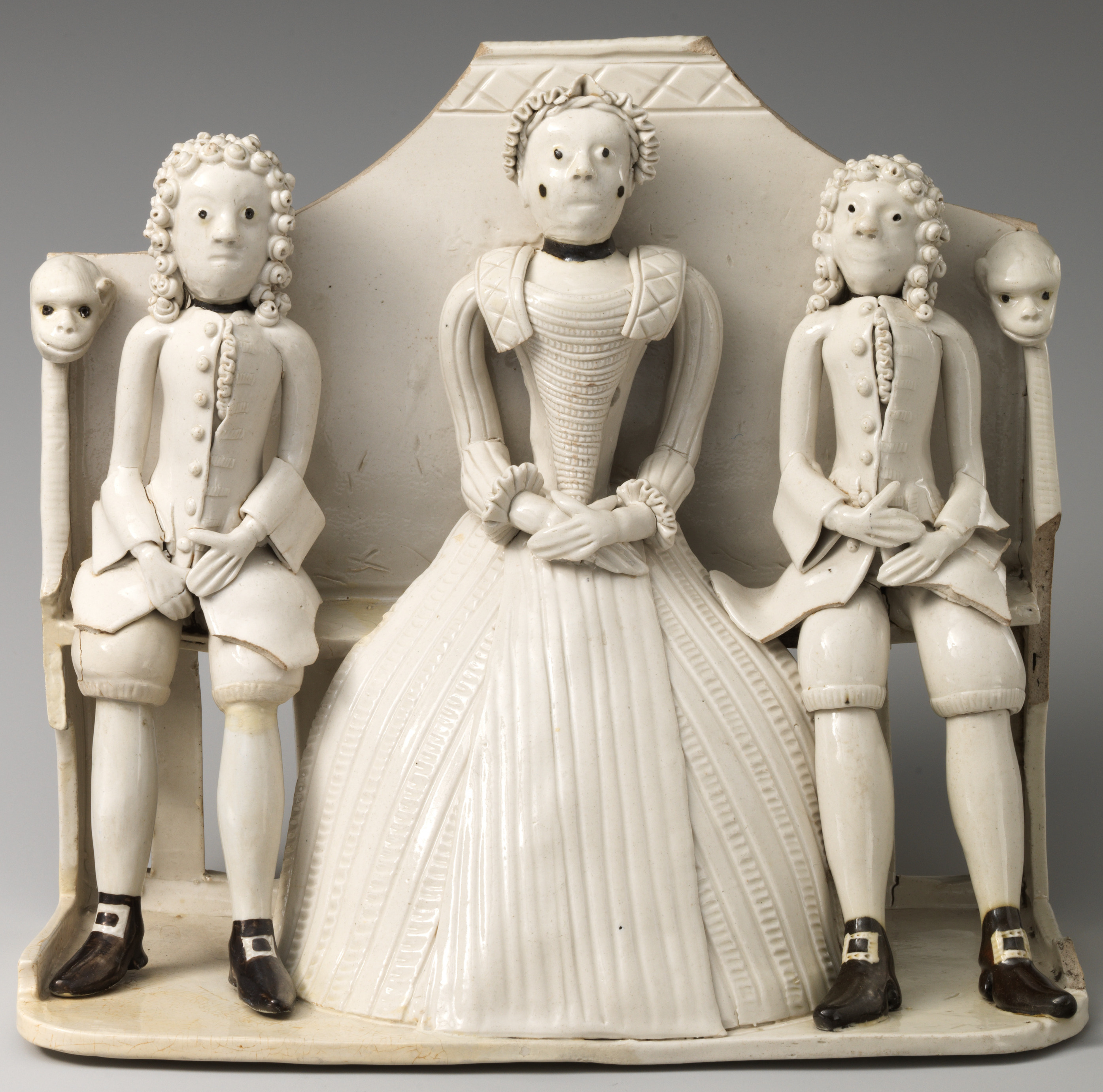 British, Staffordshire; Figure group; Ceramics-Pottery